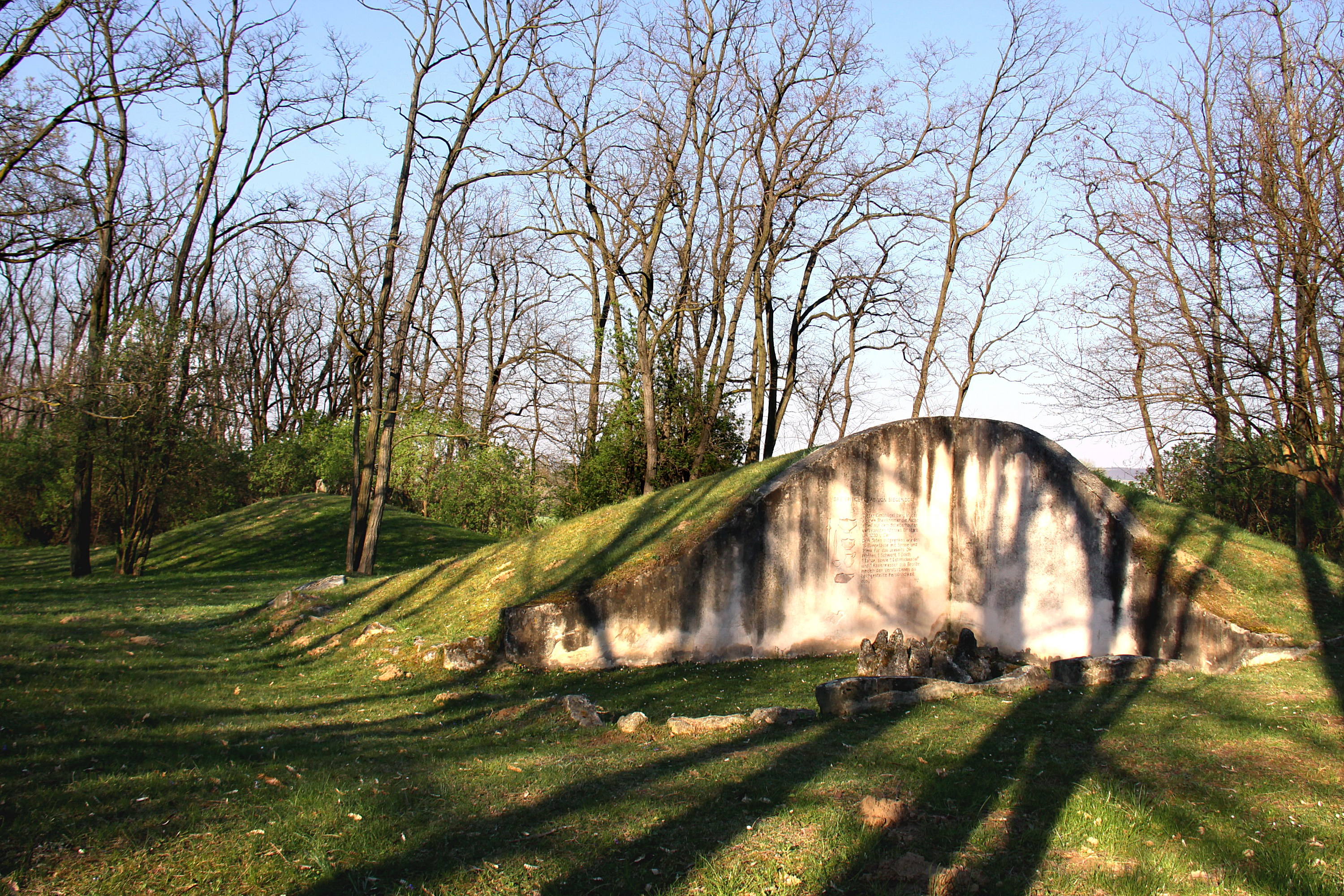 Tumulus - Siegendorf. Object location47° 46′ 43.22″ N, 16° 34′ 32.05″ E